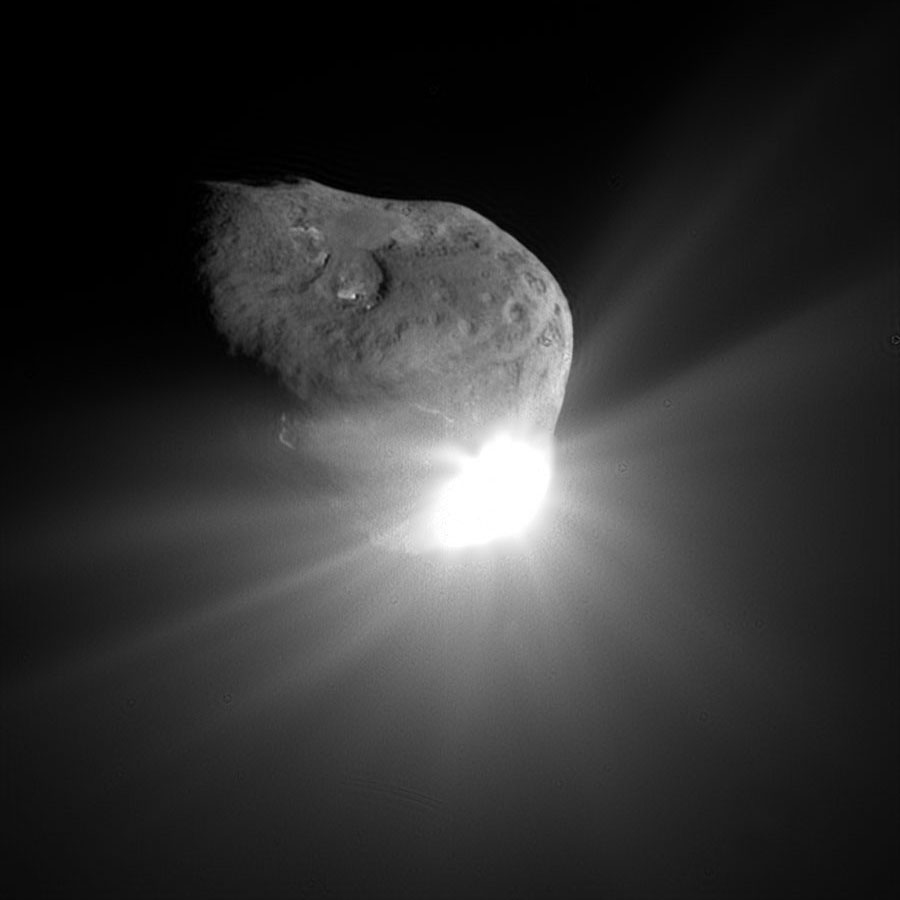 NASA's Deep Impact mission impacted comet Tempel 1 on July 4, 2005.